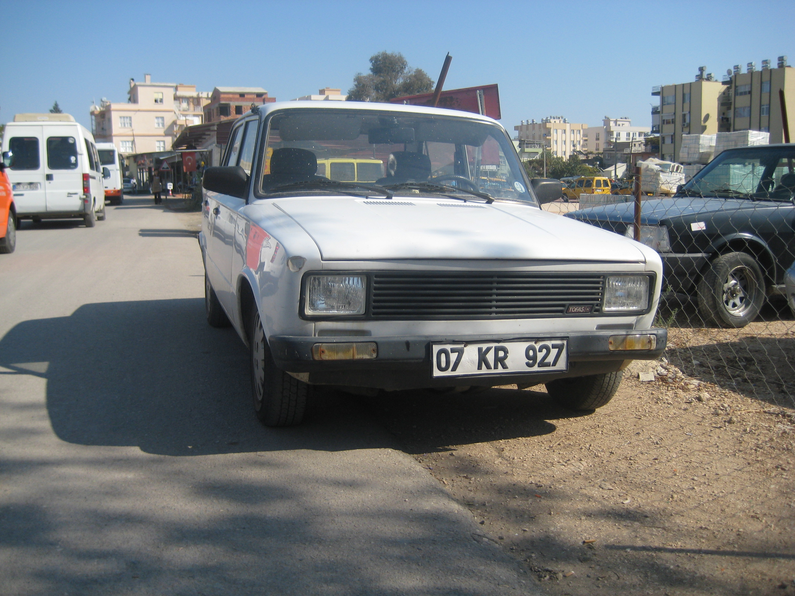 Tofas Serce, Turkish version of Fiat 124.